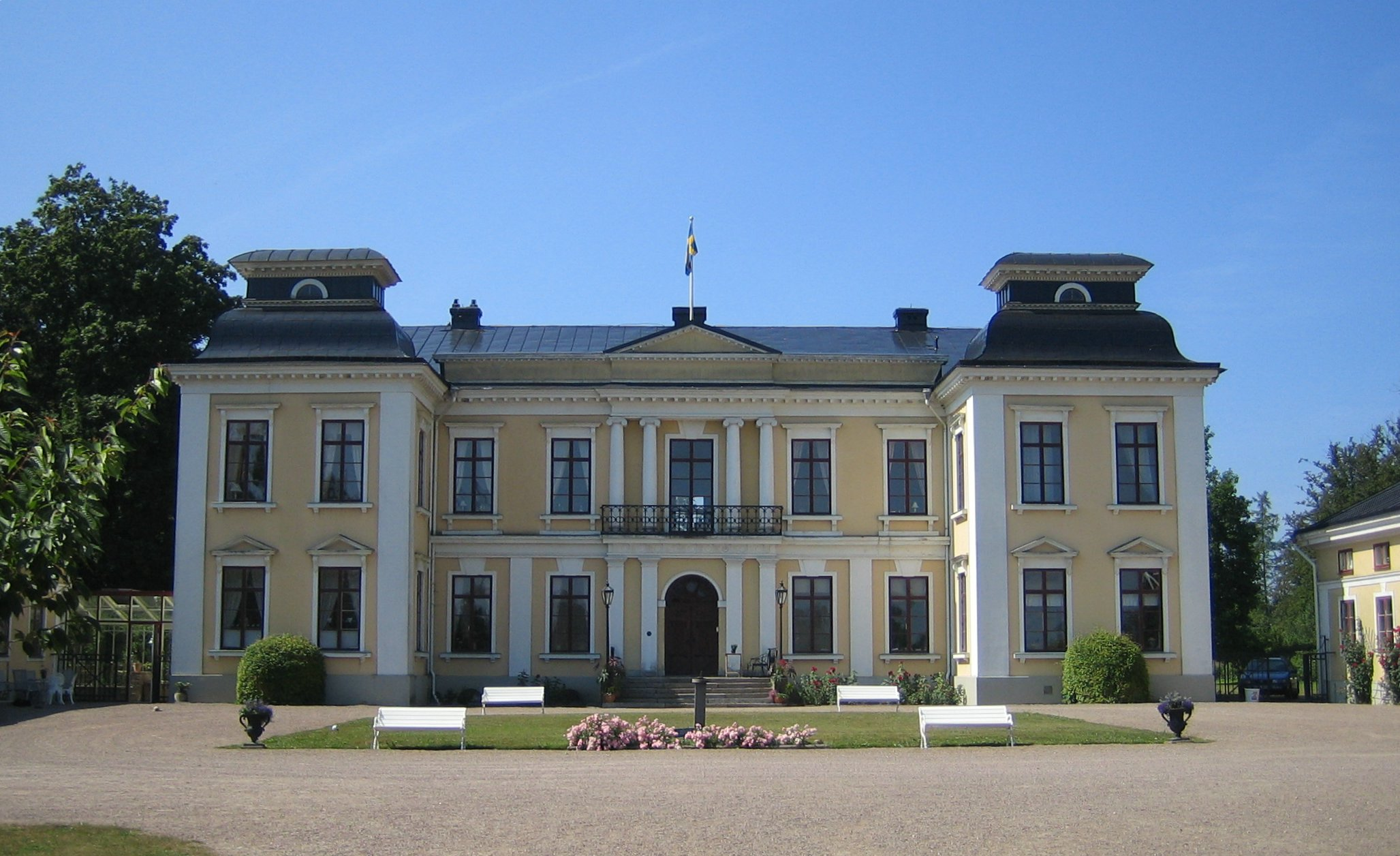 Picture of Skottorp castle in Halland, Sweden.